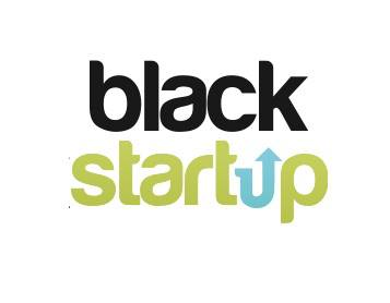 This file is a picture of BlackStartup's logo.